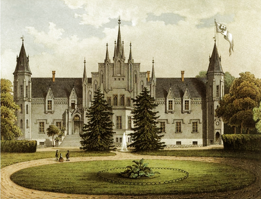 Castle in Wysoka